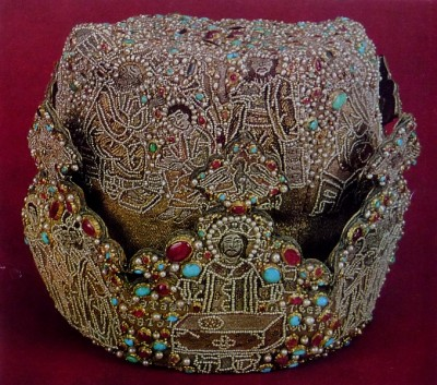 Georgian crown of XVI c.